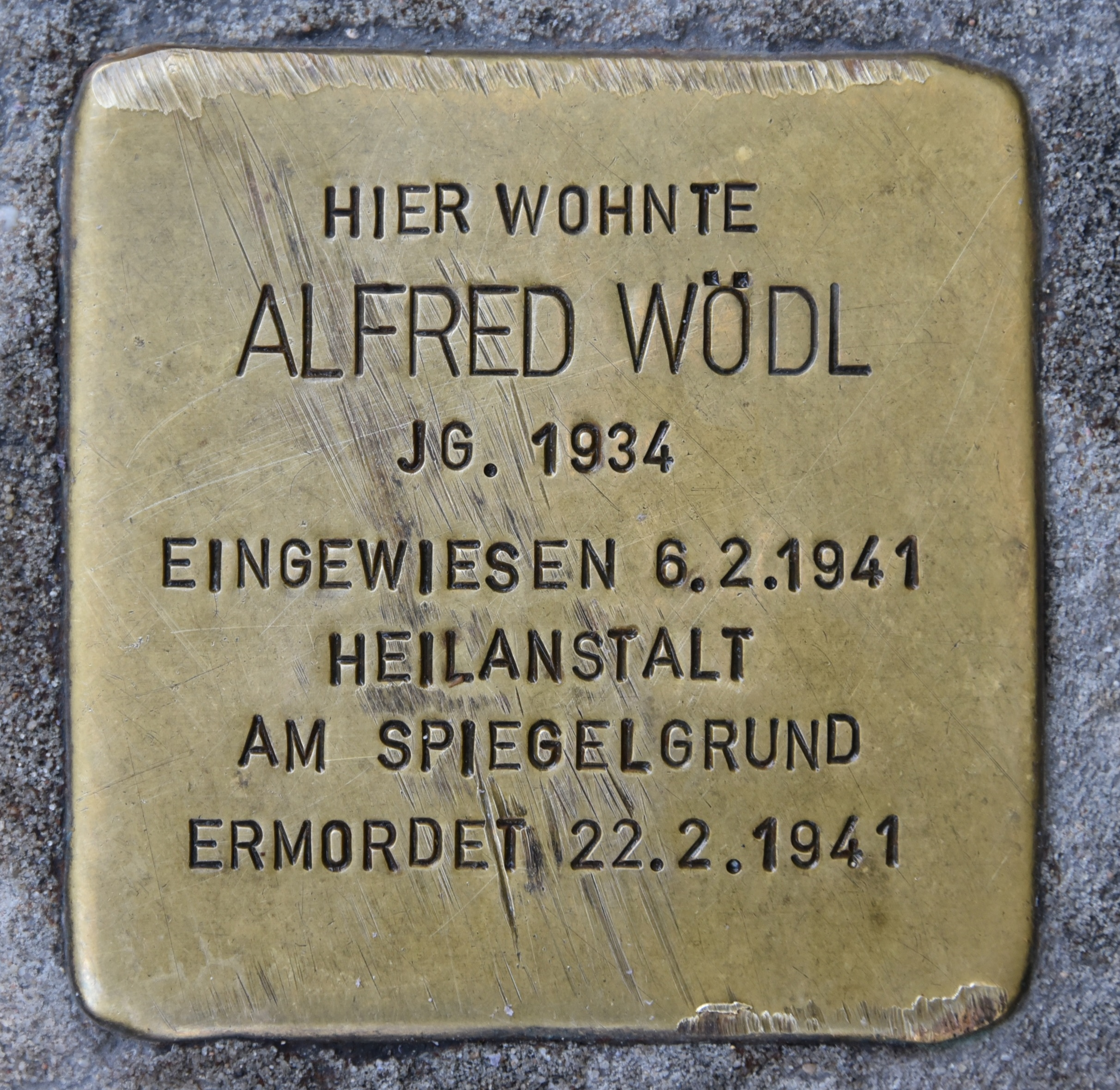 Stumbling block for Alfred Wödl